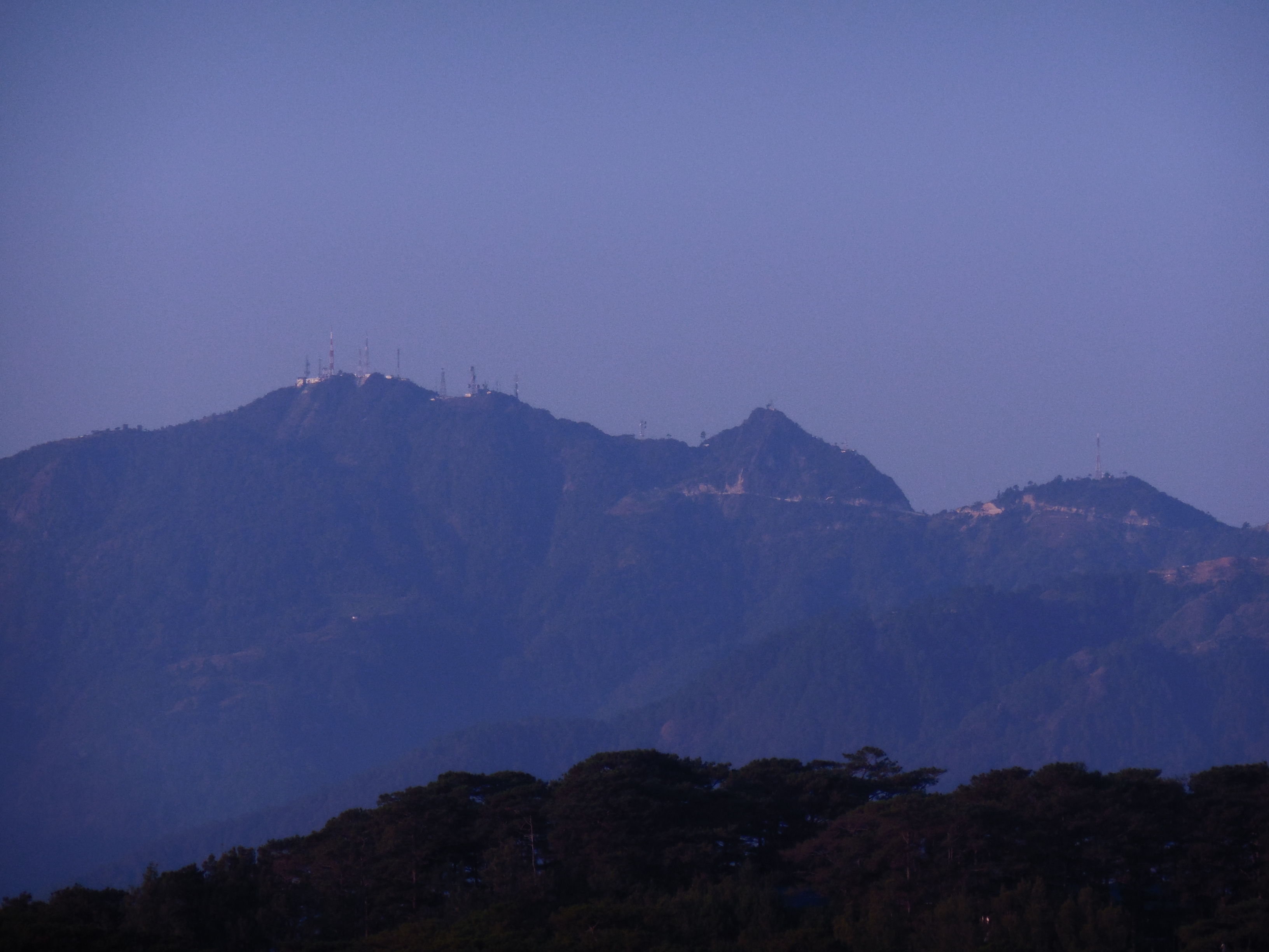 Mount Santo Tomas in Tuba, Benguet with several TV transmitters on its summit.